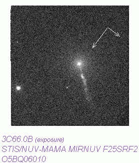 Hubble Space Telescope image of Seyfert galaxy 3C 66B's jet.